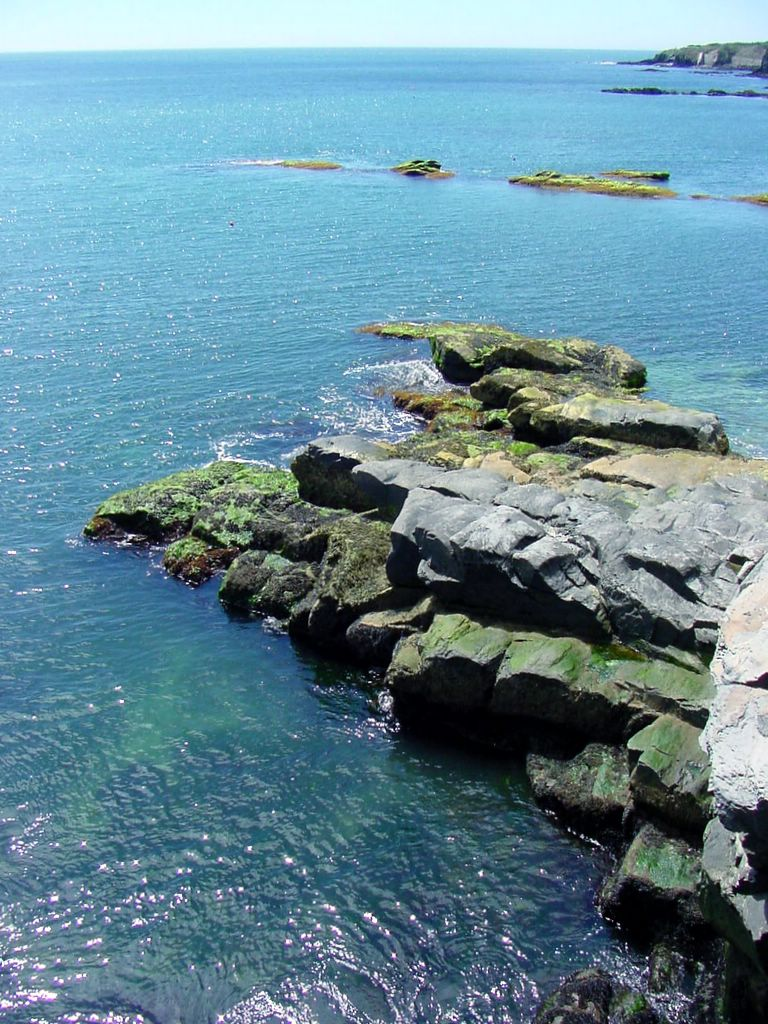 View of the Atlantic Ocean from Newport, Rhode Island, USANewport, Rhode Island